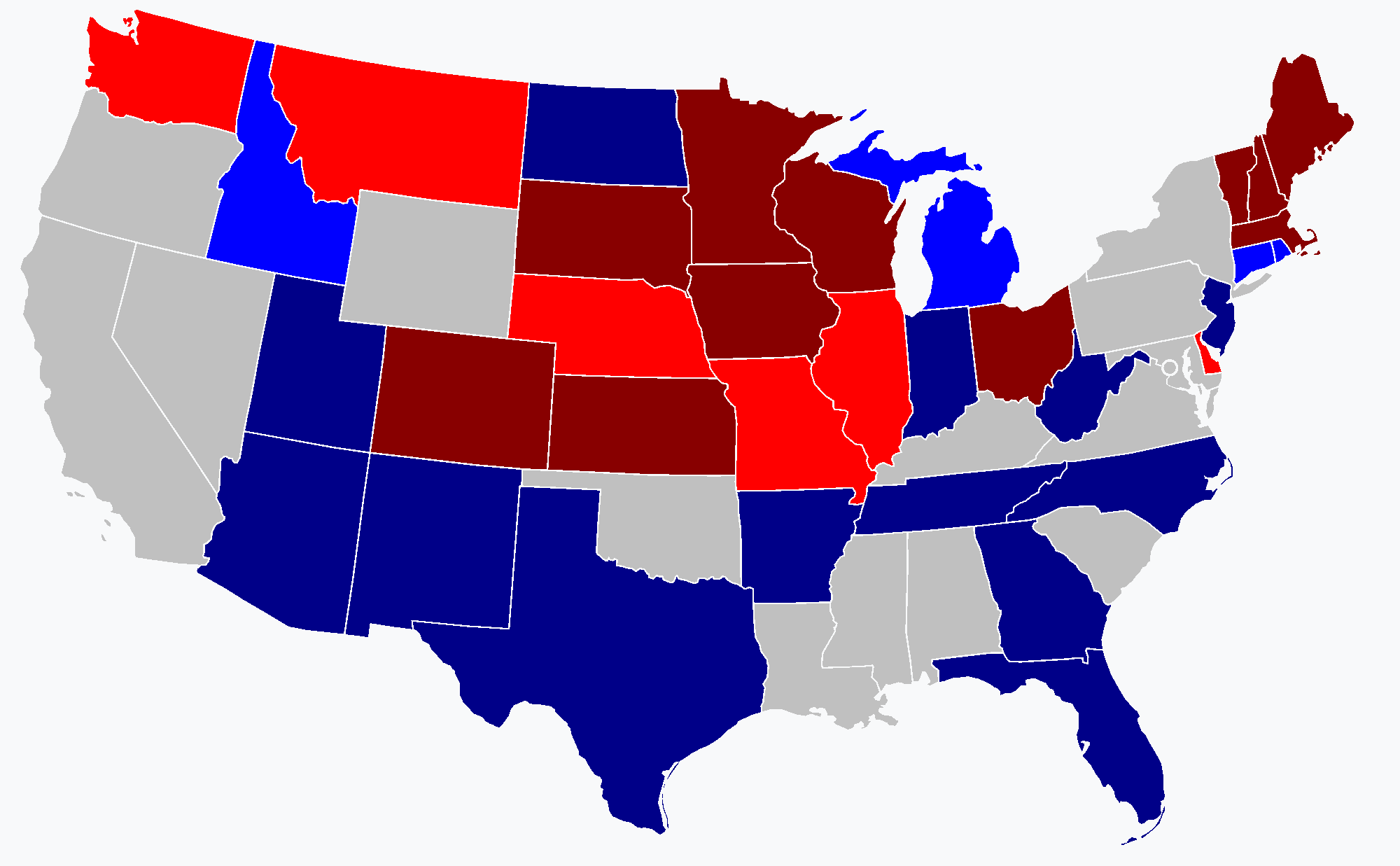 A map showing the results of the 1940 United States Gubernatorial elections